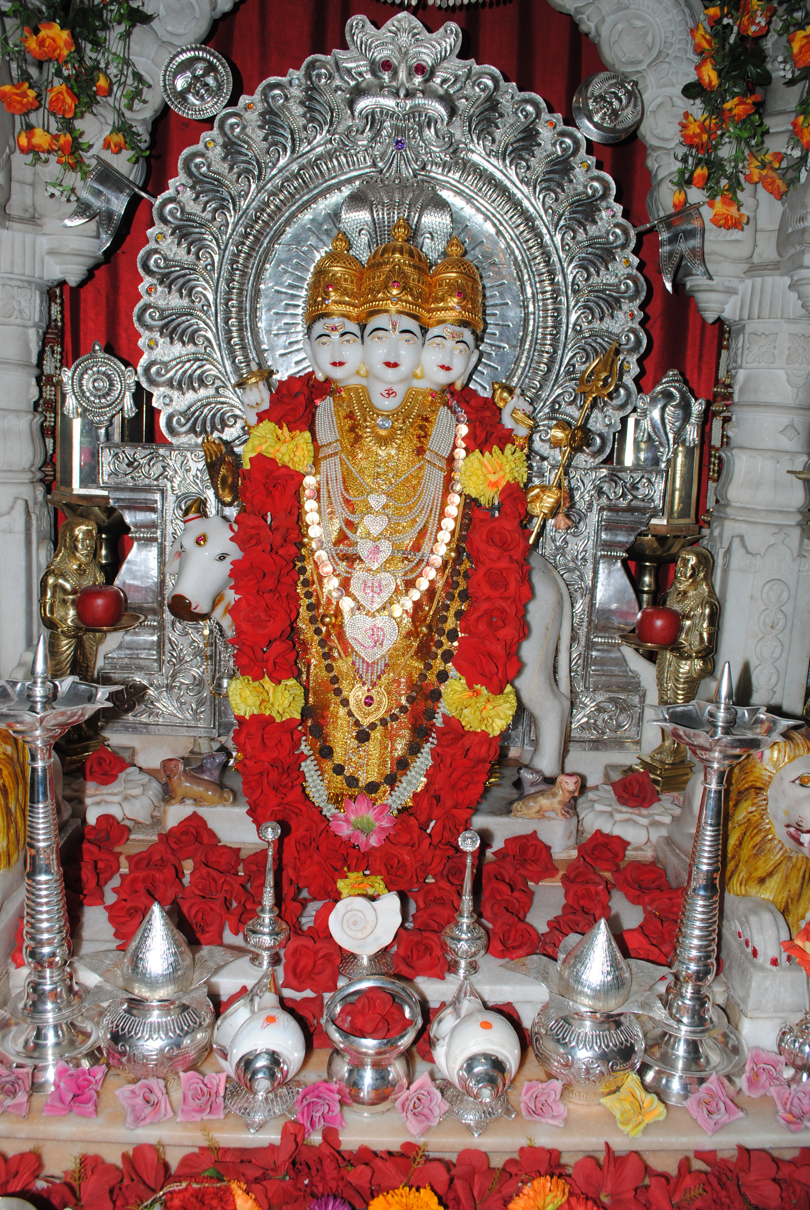 This is photo of statue in Datta Devasthan temple. More information about datta devasthan is available on website